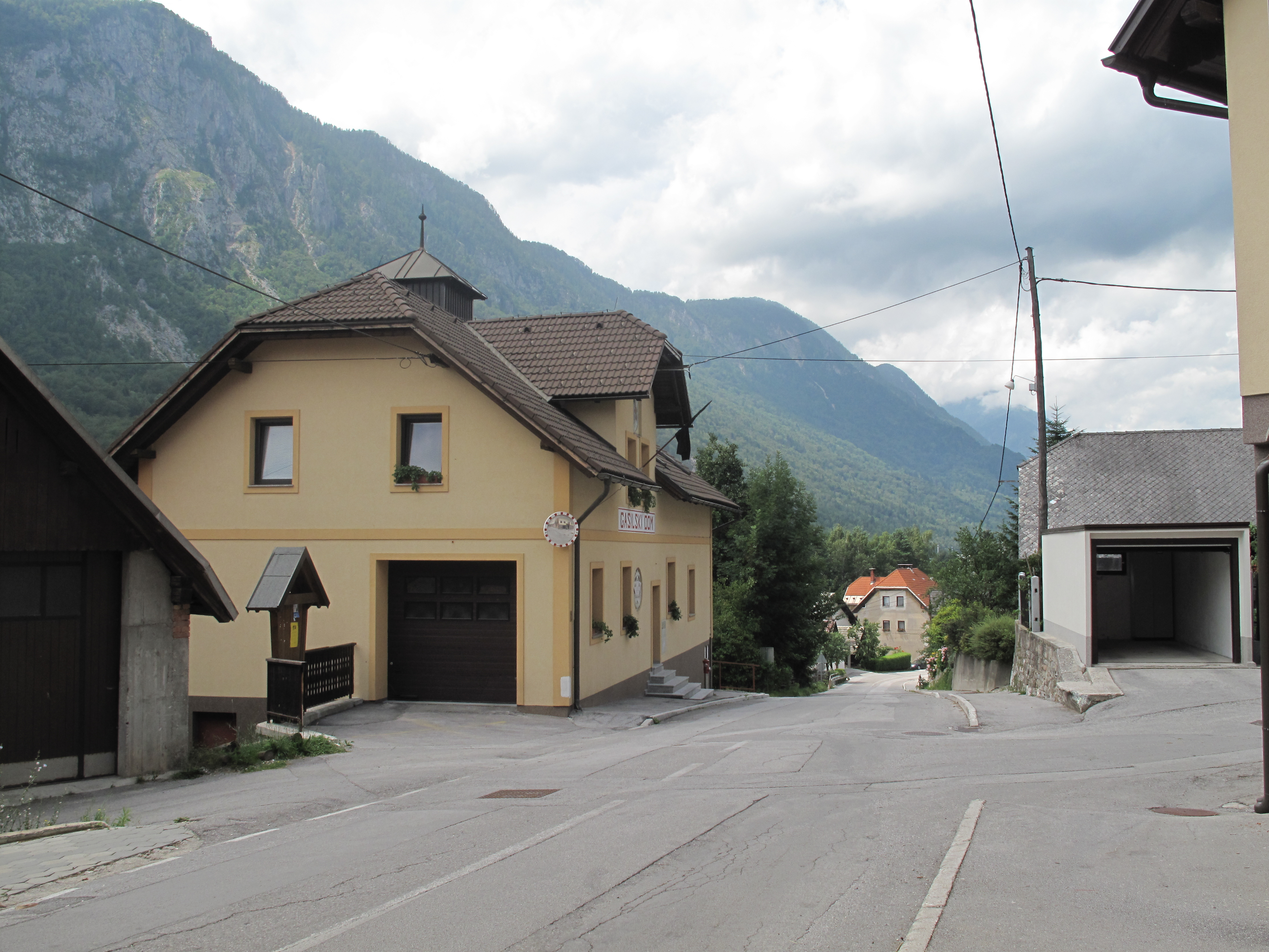 Hrusica, fire station